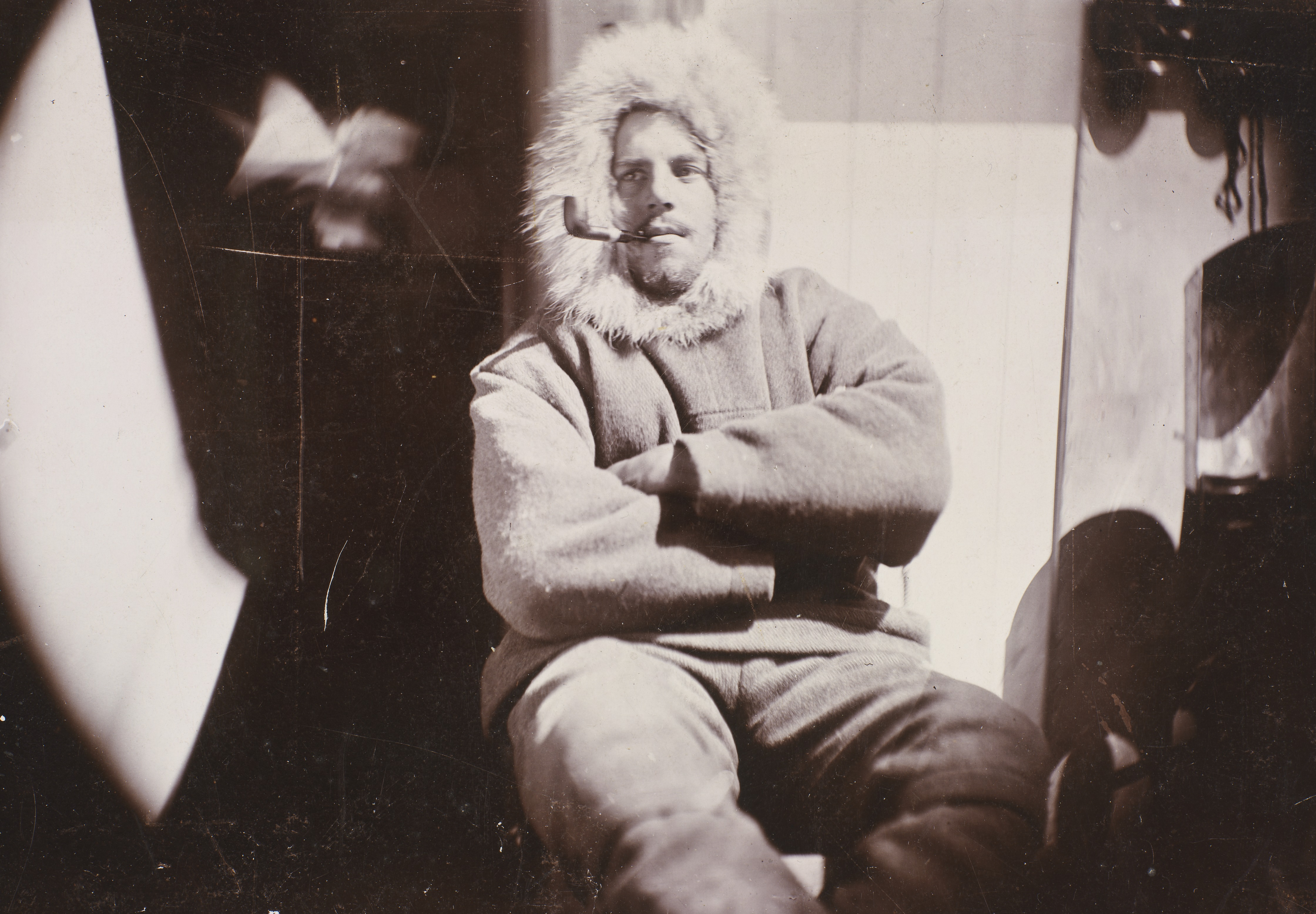 Second lieutenant Sigurd Scott Hansen, who was responsible for the meteorological, astronomical and magnetic observations on board the «Fram». One of the pictures from the expedition with arctic ship toward the North Pole in the period June 24, 1893 to August 13, 1896. According to the plan, the ship was to drift in the ice with the ocean current from the coast of Siberia across the North Pole to Greenland. The goal, to get to the North Pole, was not reached, but the scientific evidence gathered was of great importance to arctic research.